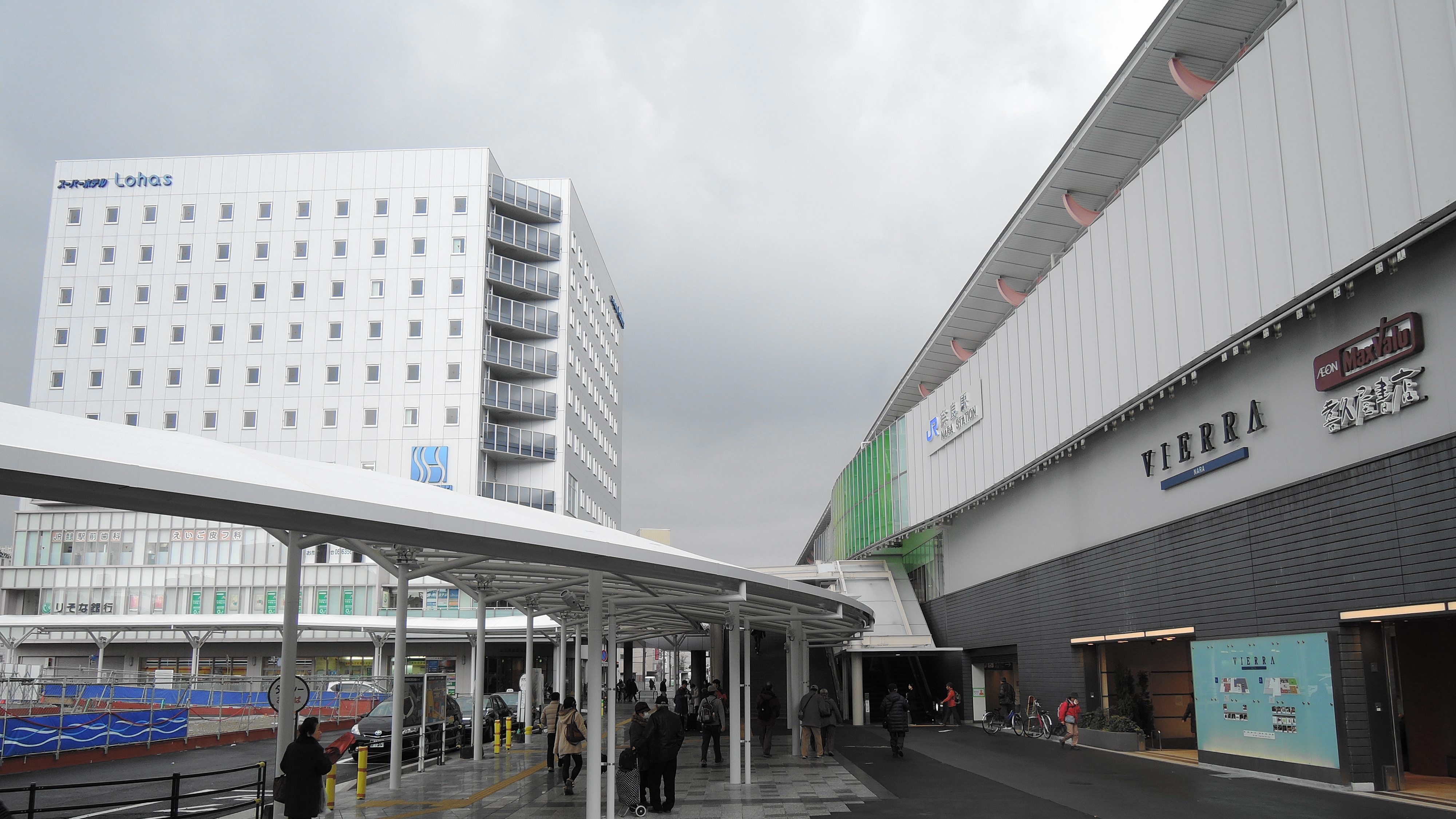 NK building and JR Nara station,Nara prefecture, Japan